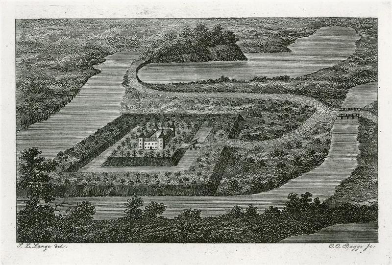 Kobberstik